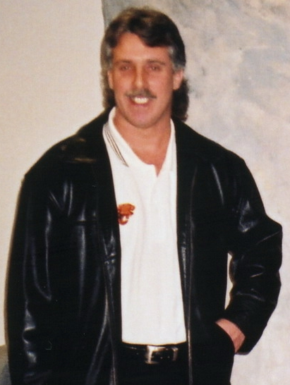 Cropped verison of File:Lui Passaglia and Damon Allen with Grey Cup.jpg